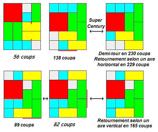 the best records of the Century structure for each kind of goal